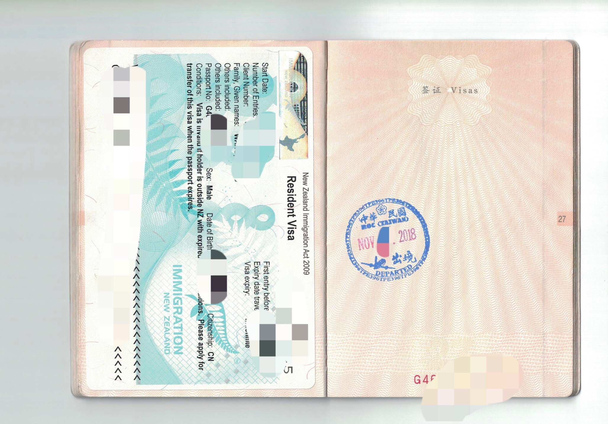 ROC Departure Stamp on PRC Passport